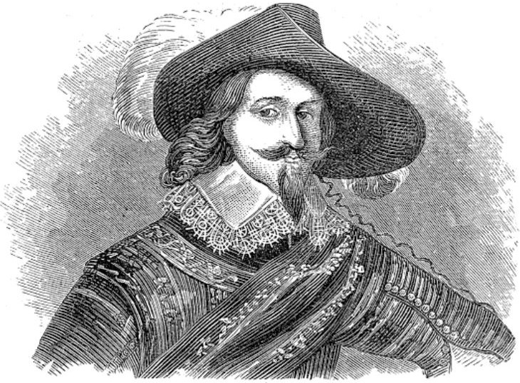 Sir Thomas Meautyswas was private secretary to Francis Bacon. He was also an English civil servant and politician who sat in the House of Commons between 1621 and 1640. In this picture his long lovelock is visible next to his left arm